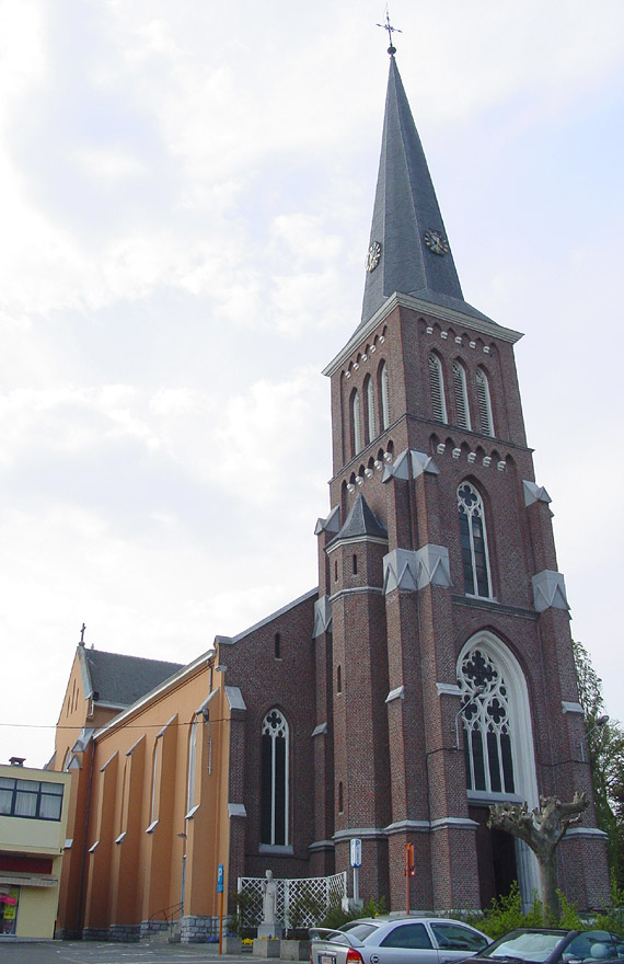 Church in the centre of Kelmis. Photograph taken by David Edgar on 7th May 2006.